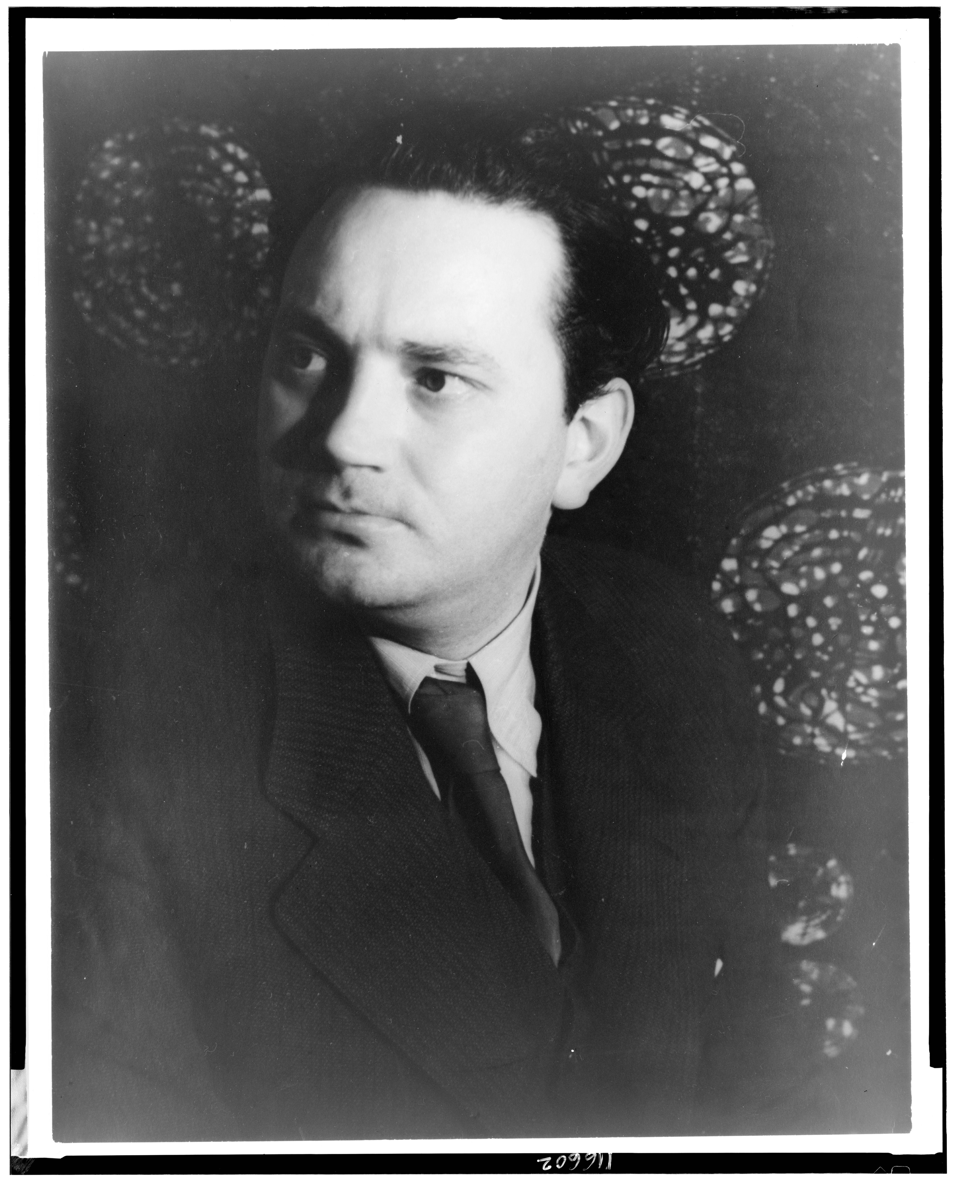 Thomas Wolfe, 1937